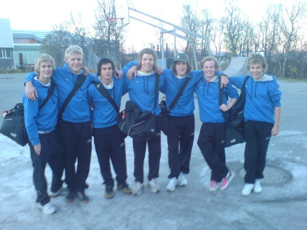 team picture gymnastics